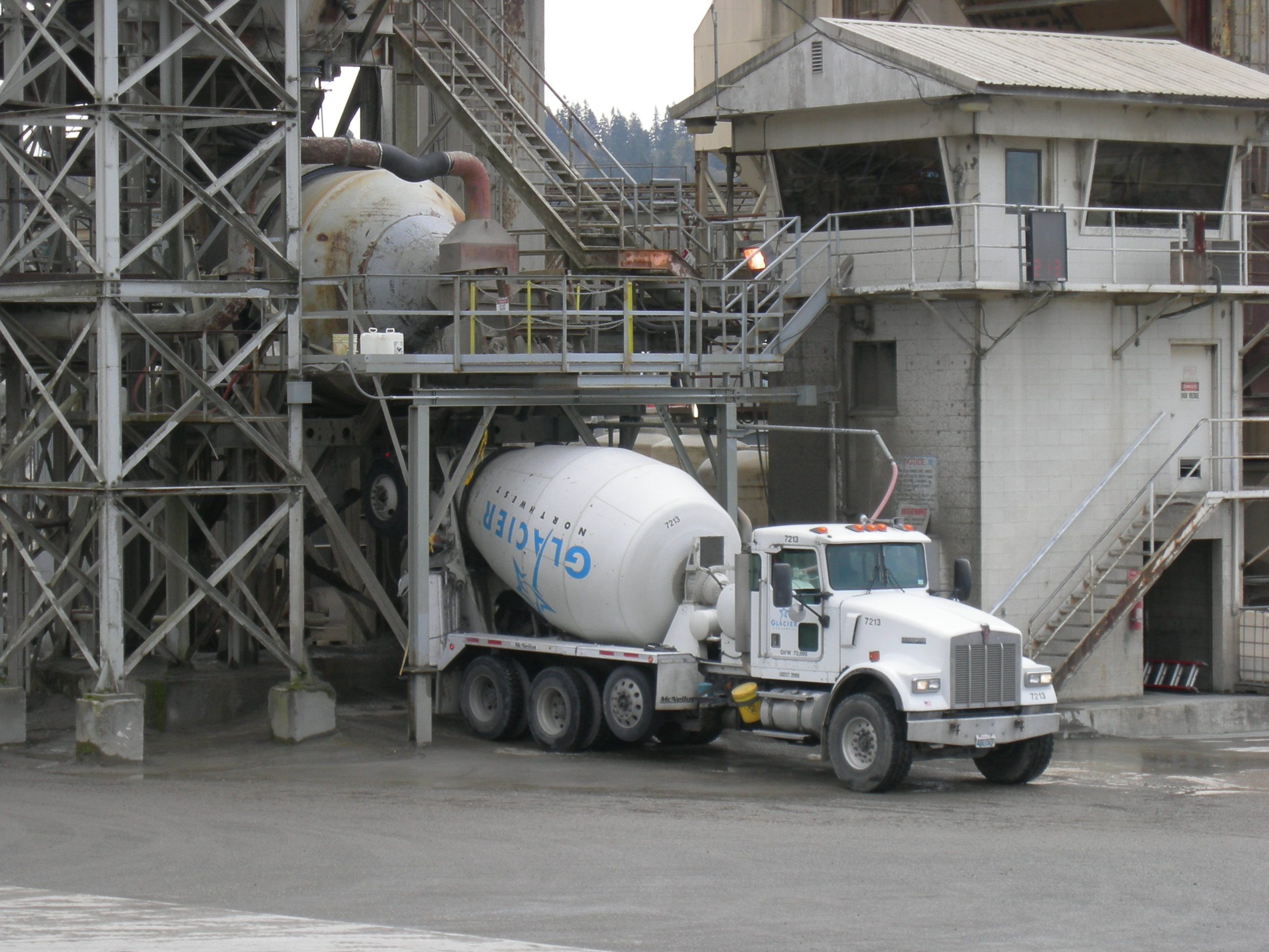 The Glacier Northwest cement works, Kenmore, Washington, seen from the Burke-Gilman Trail.